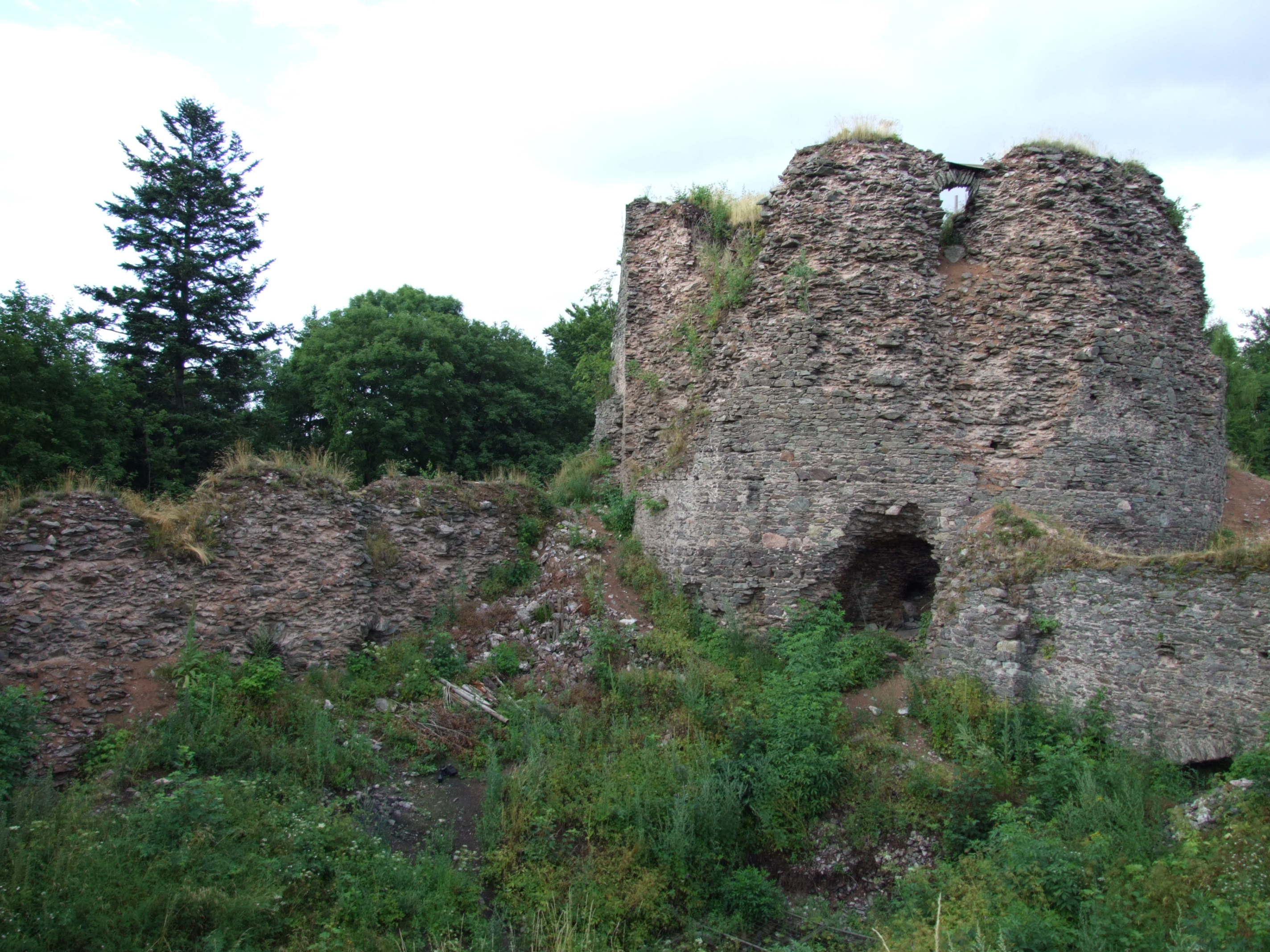 Frymburk castle, Hradec Králové region, Czech Republic